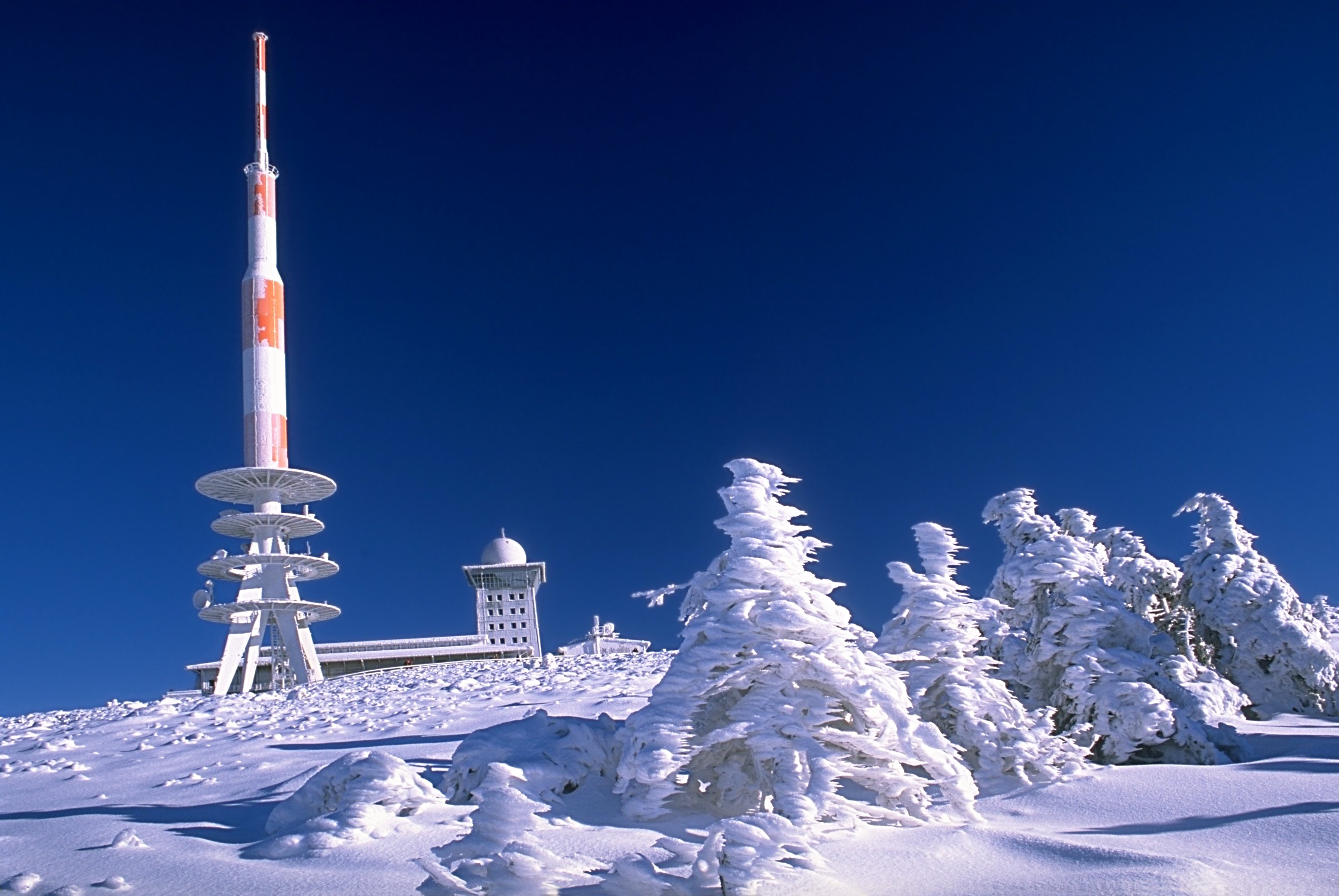 Top of mount Brocken in Winter, Harz, Germany Photo was taken using the following technique: Film: Fuji Velvia Lens: 2.8/28 Filter: Polarisation Body: Minolta Dynax 7 Support: Manfrotto 190B Image with Information in English Bild mit Informationen auf Deutsch